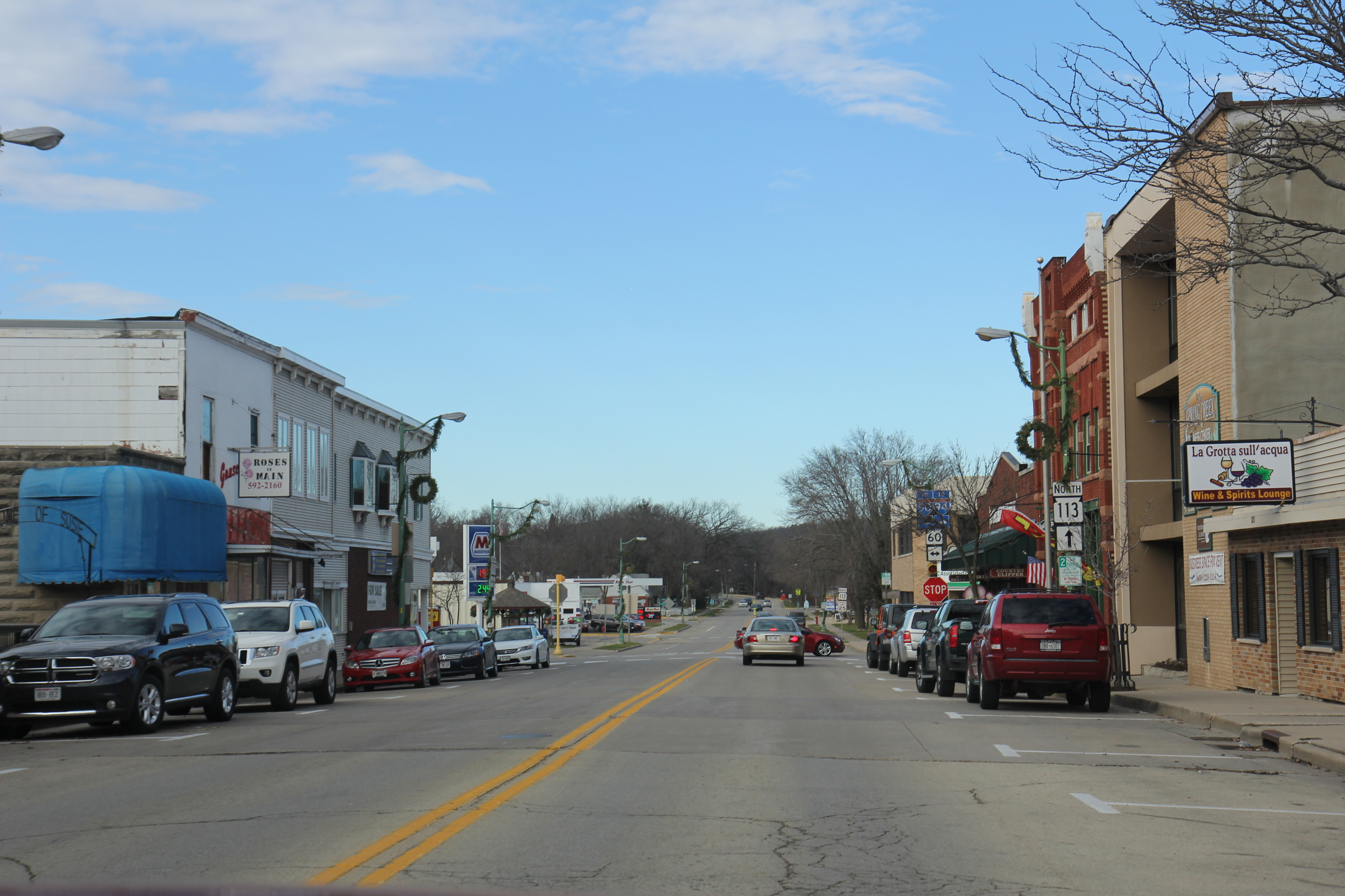 Downtown Lodi, Wisconsin on Wisconsin Highway 113